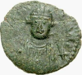 Ostrogoths, Baduila, 541-552 AD. AE Decanummium. 4.31 gr. BADVELA REX, Bust of Baduila, beardless, facing, wearing embroidered robes and crown ornamented with ball at apex, and divided in front by vertical bars into two divisions. BMC 44-49; COI 98b; MEC 1, 162; MIB 90b.